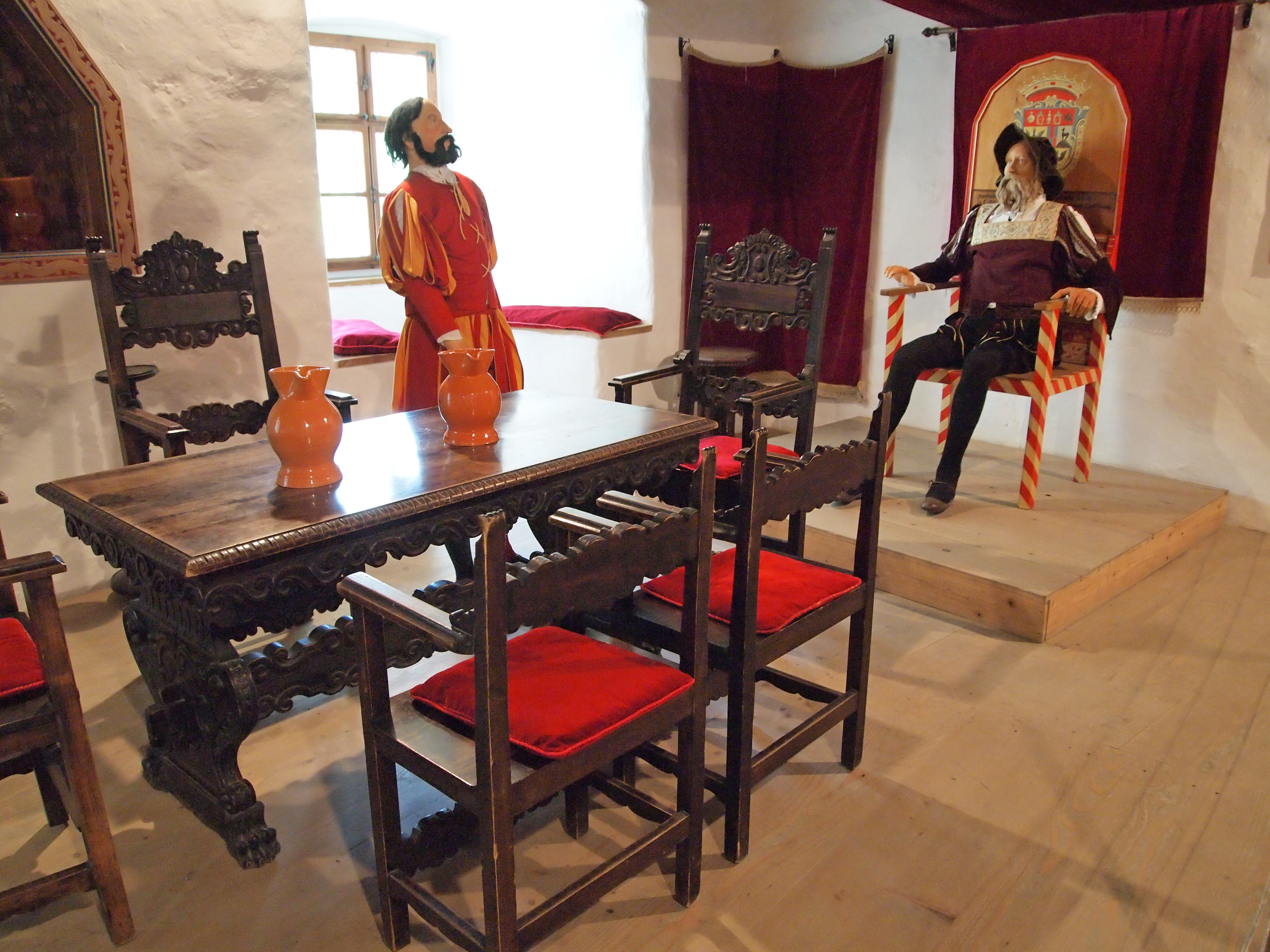 Knights' Hall in Predjama Castle. This photograph was taken with a Olympus E-PL1.